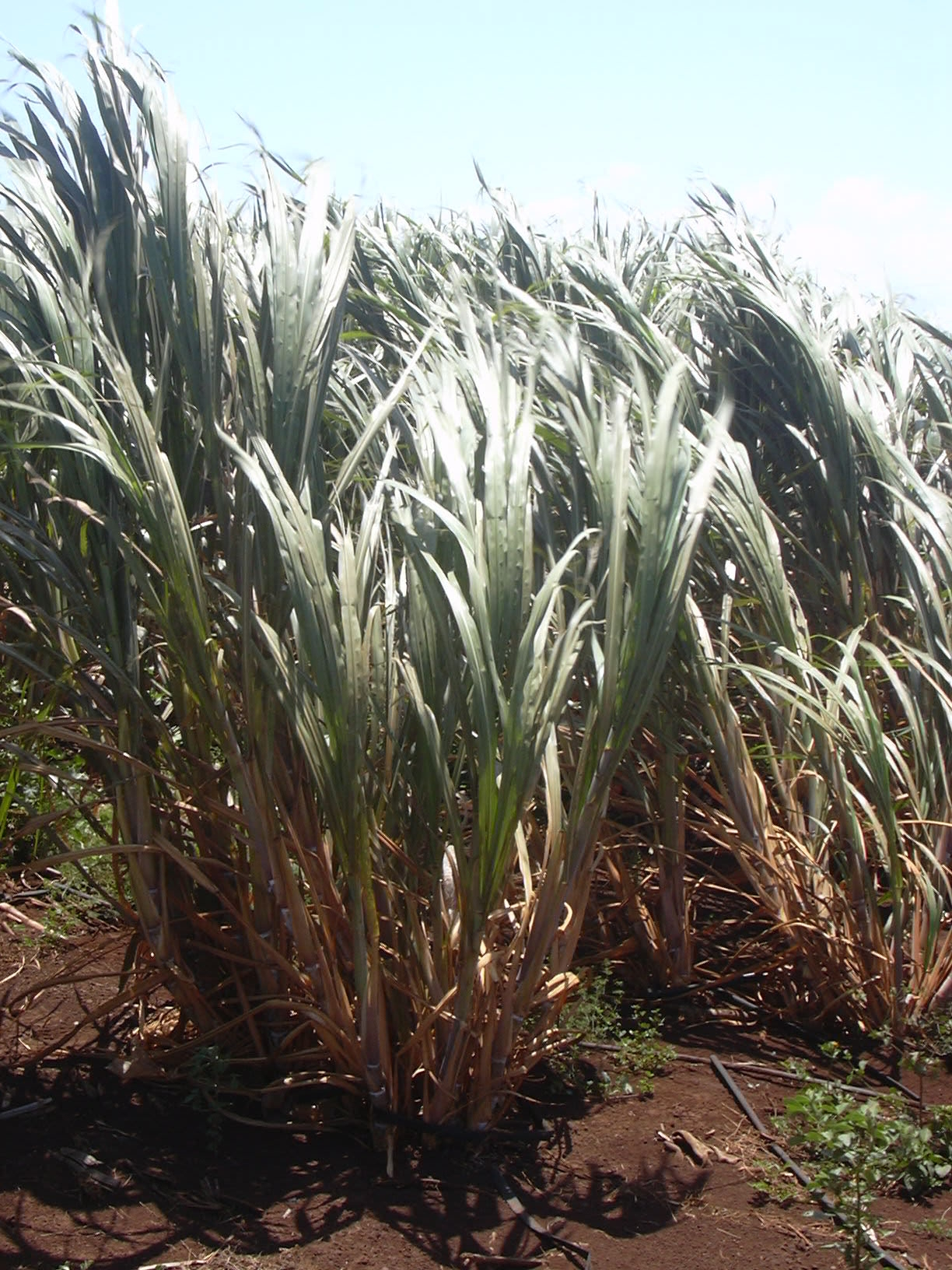 Saccharum officinarum (habit). Location: Maui, Haliimaile